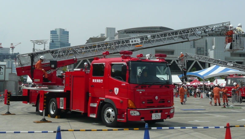 Hino Profia fire engine.